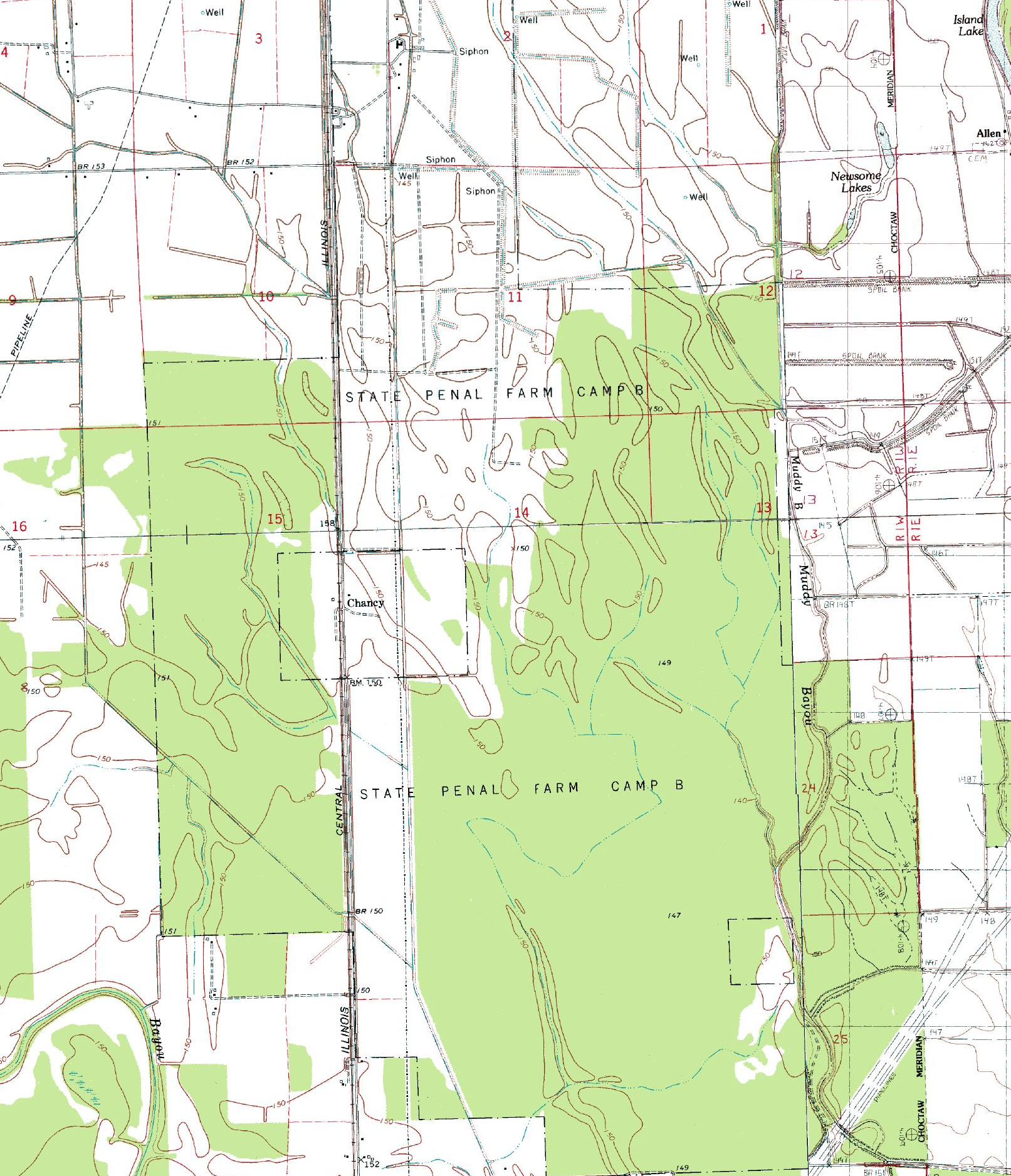 USGS topographic map of Camp B, a unit of the Mississippi State Penitentiary in Quitman County, Mississippi